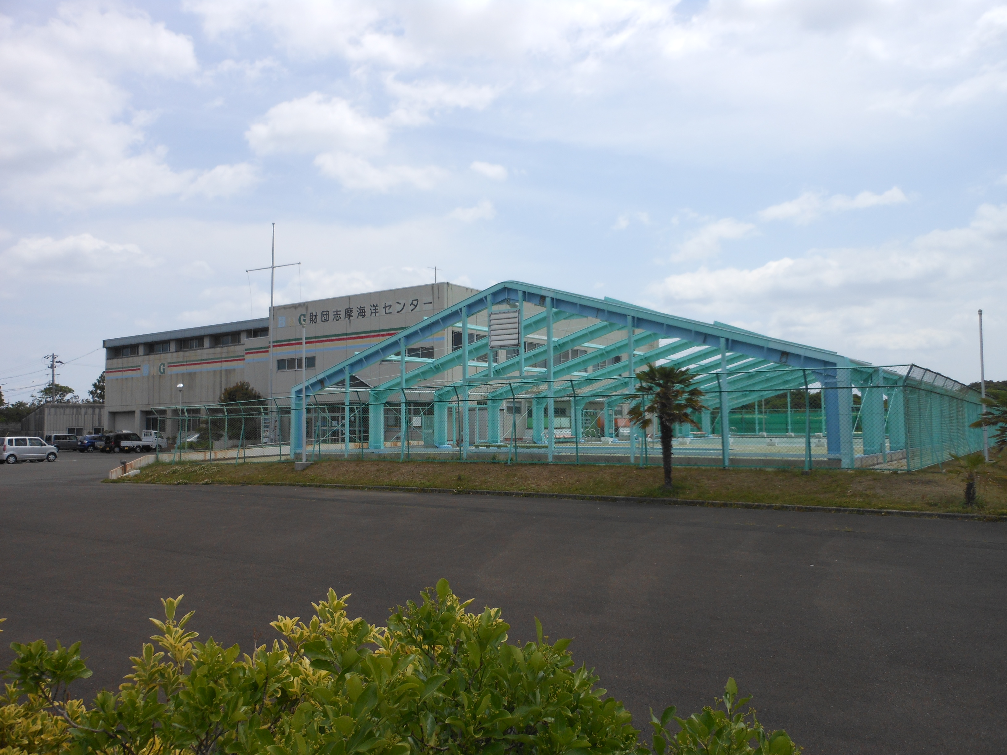 This is the building of Shima City Shima B&G Marine Center, which is located in Shima, Mie ,Japan.